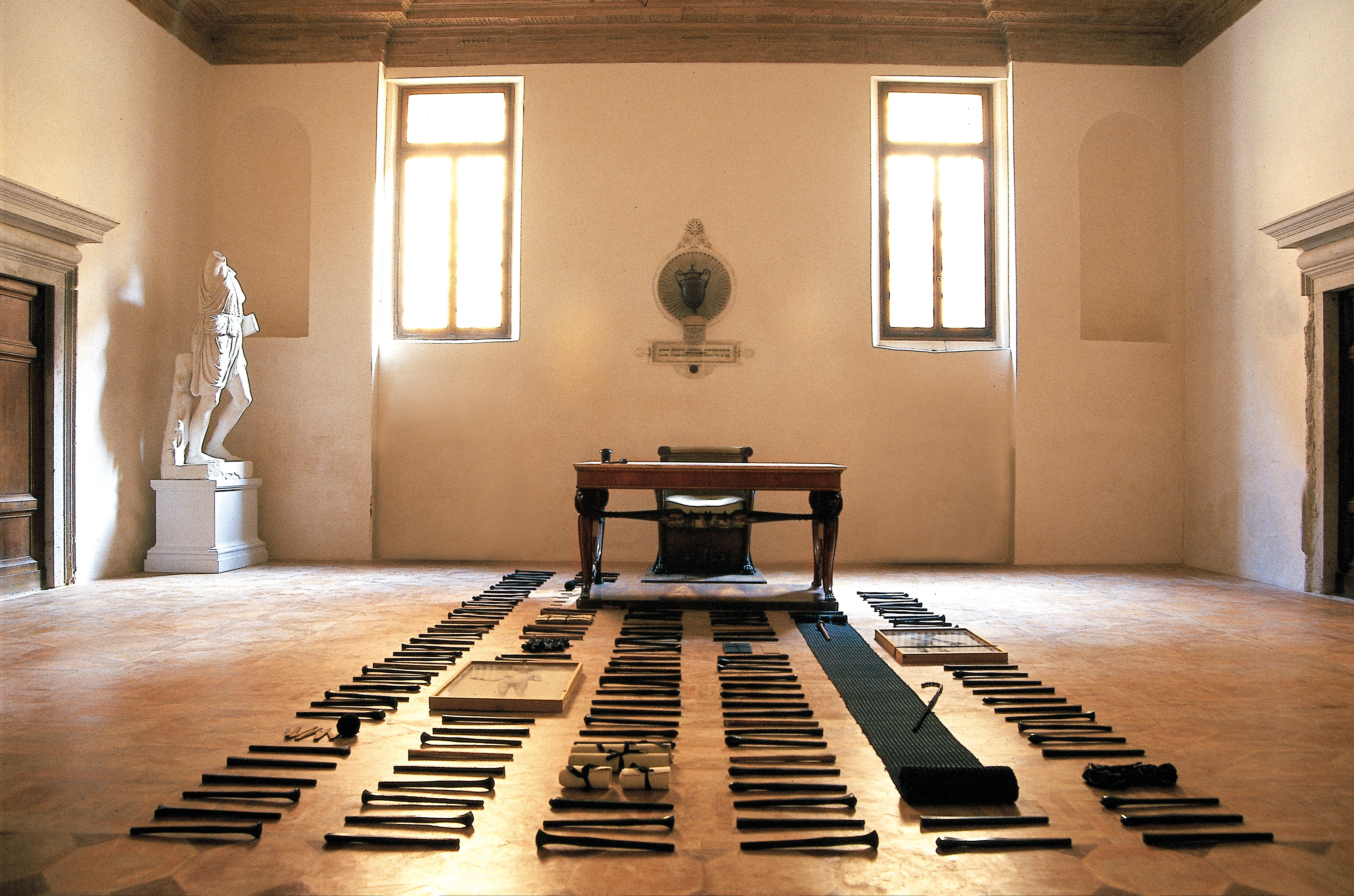 ph. Mark E. Smith